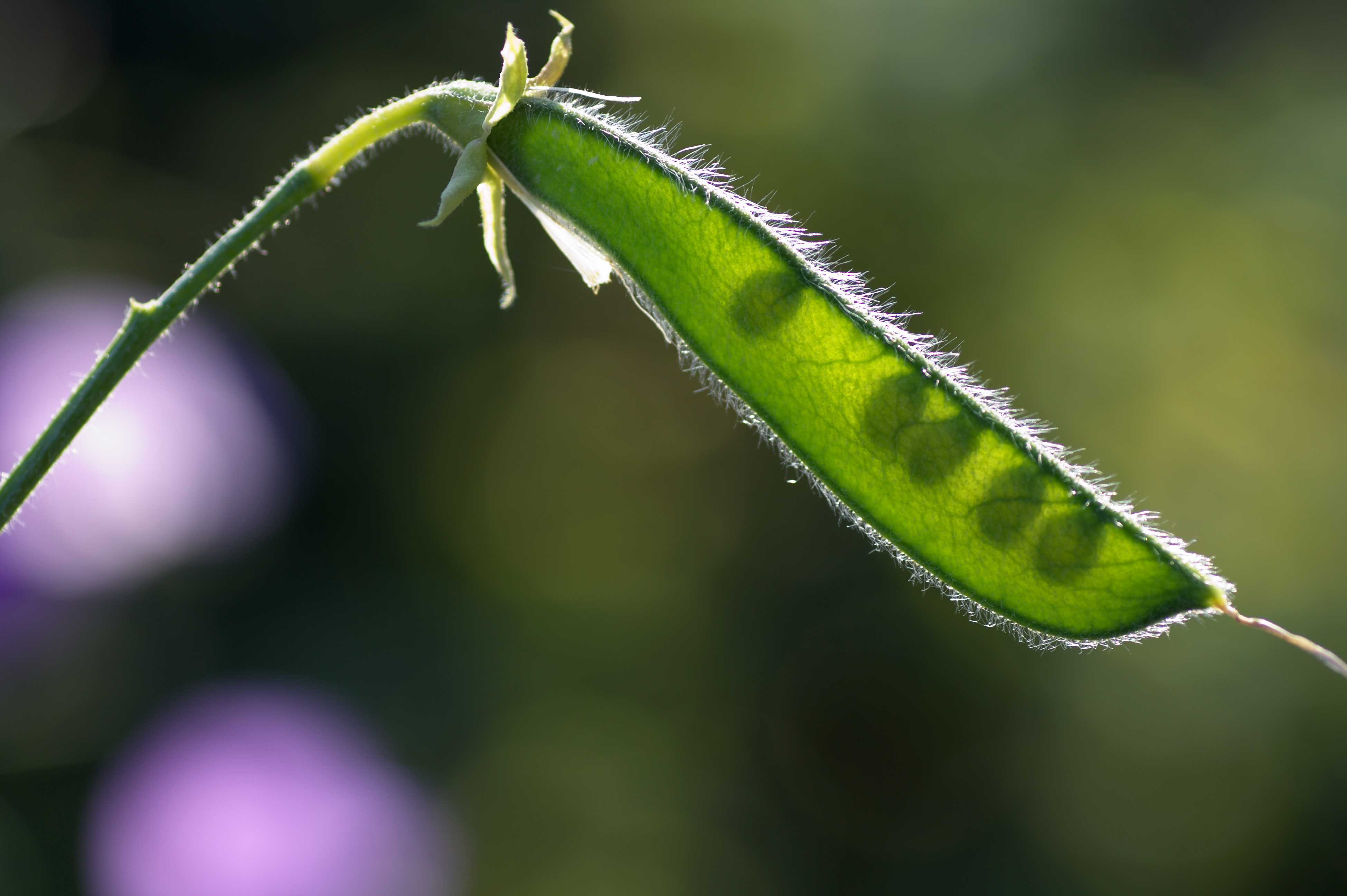 Estonia, Põlva County